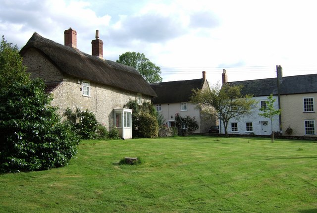 Cottages at Hawkchurch These are seen across the churchyard; Church Cottage is on the left. The row of cottages is on the main village street.